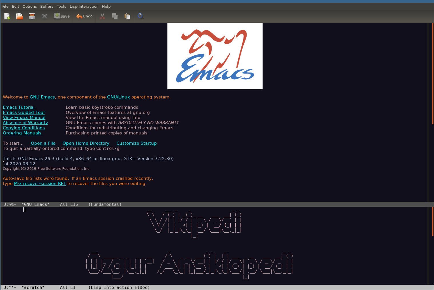 A screenshot that shows GNU Emacs 26.3 (GTK+) instance. The screen is split in two and there is a *GNU Emacs* window above and a *scratch* window below.